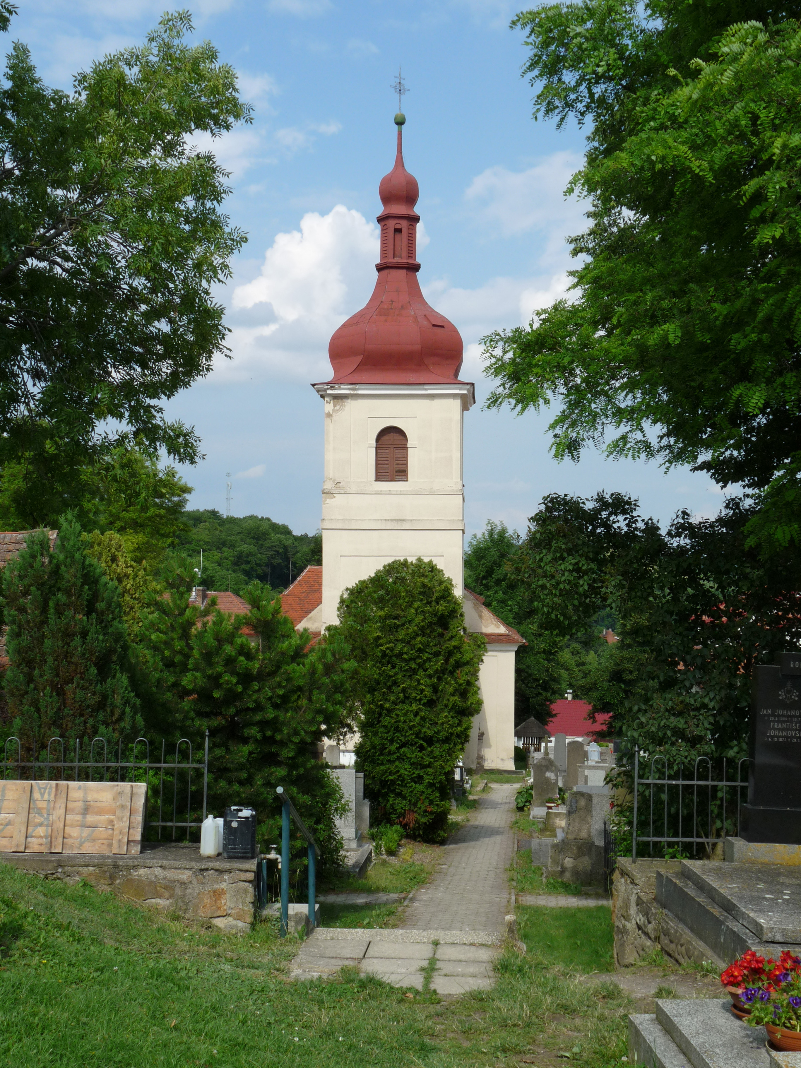 Church of St Wenceslaus in the village of Třebívlice, Litoměřice District, Ústí nad Labem Region, Czech Republic as seen from the cemetery.